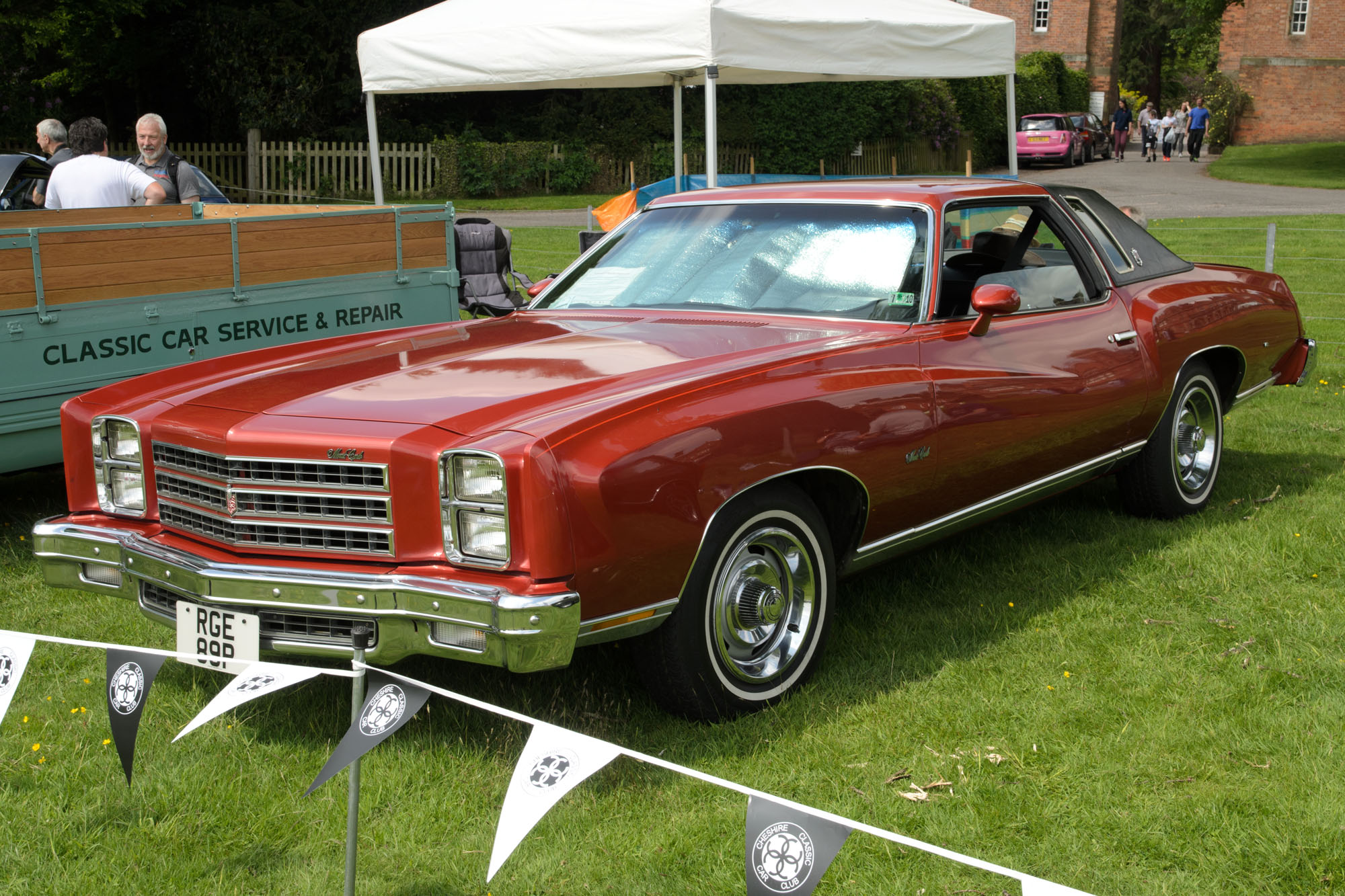 Capesthorne Hall Classic Car Show 29/05/2016